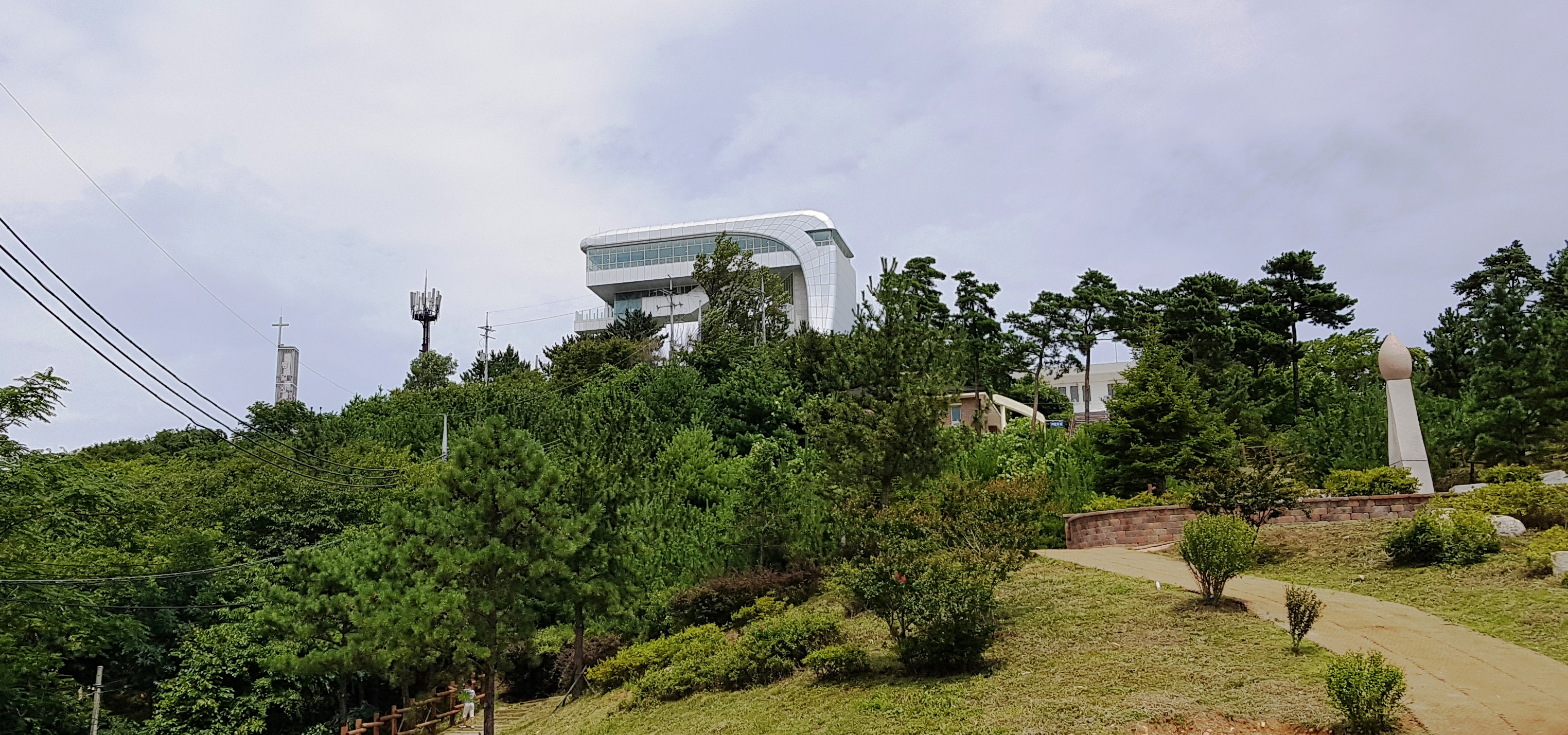 Unification Observatory